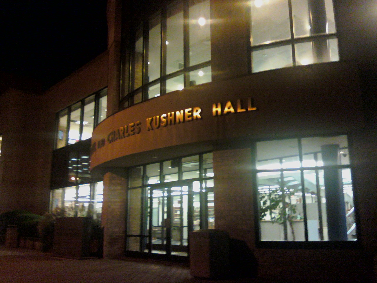 Hofstra